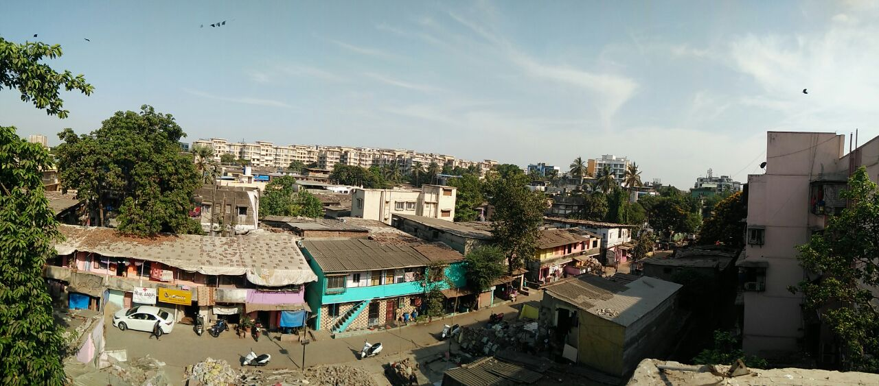 Panaromic view of Christian village in kurla Mumbai